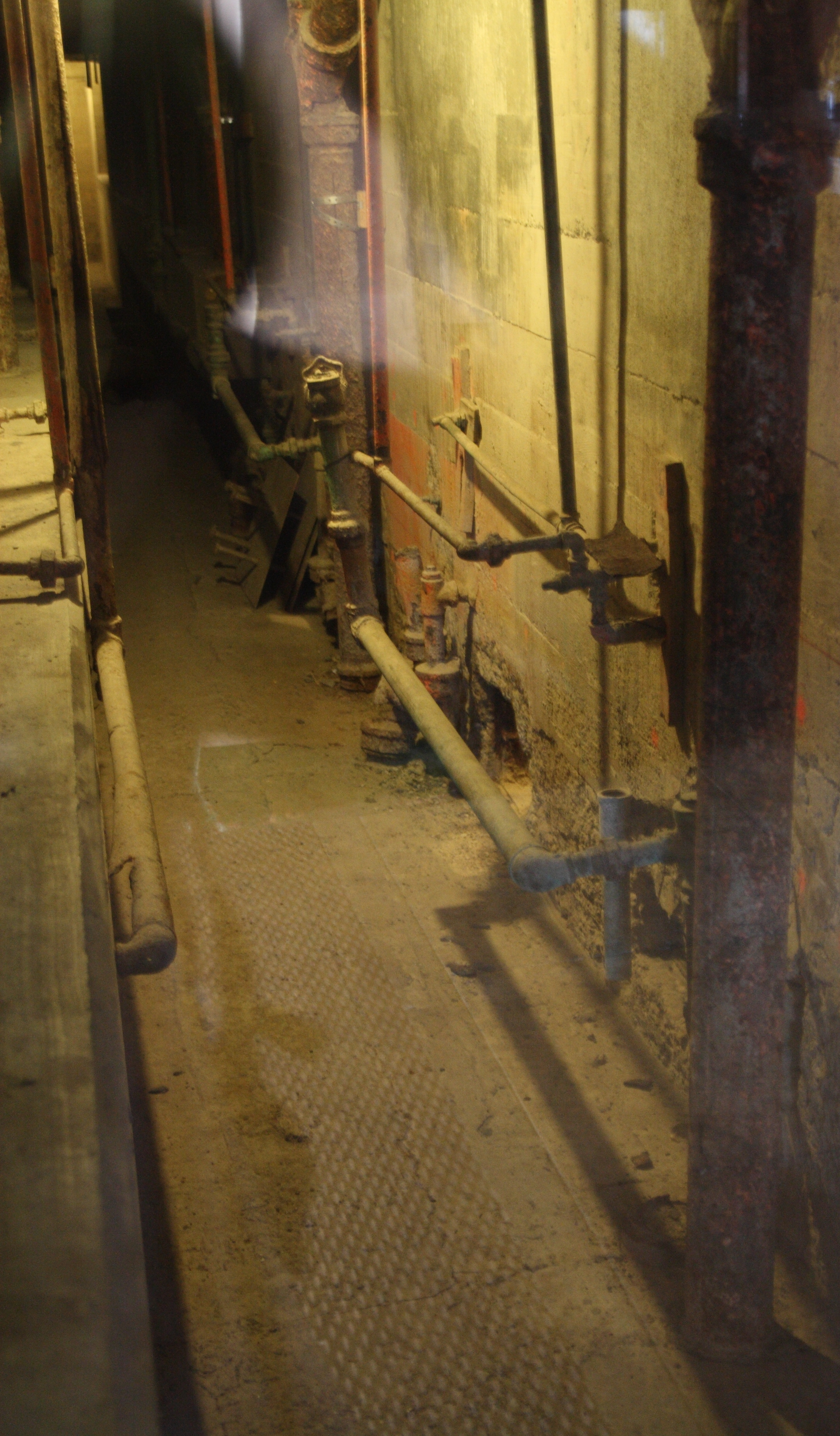 The utility corridor used in the 1962 escape, showing the two holes from cells. Picture taken through glass.